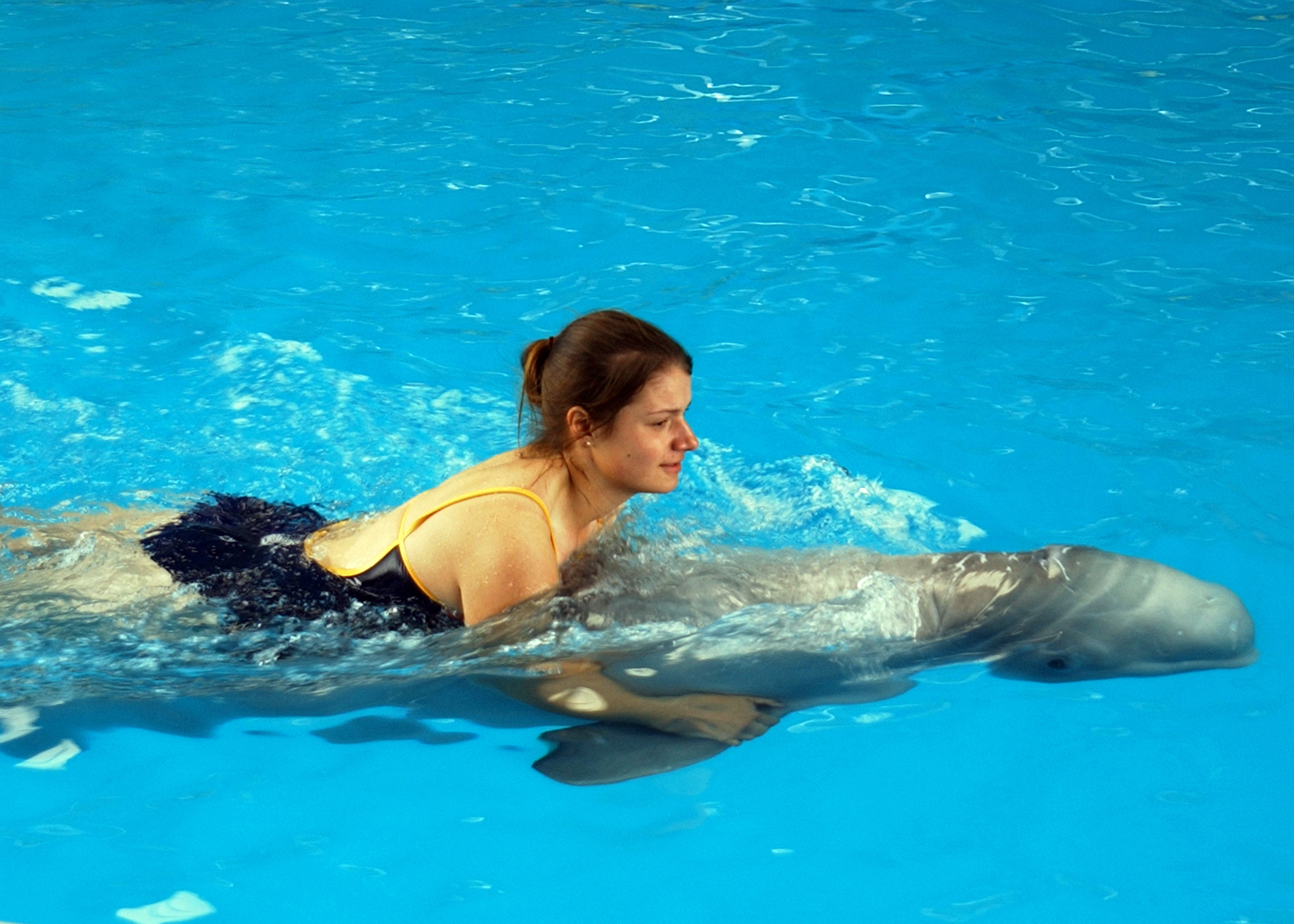 Bahrain (Dec. 16, 2004) - A Sailor assigned to the aircraft carrier USS Harry S. Truman (CVN 75), swims with a beluga during a port visit to Bahrain. Carrier Air Wing Three (CVW-3) is embarked aboard Truman and is providing close air support and conducting intelligence, surveillance and reconnaissance missions over Iraq. Truman’s Carrier Strike Group Ten (CSG-10) and CVW-3 are on a regularly scheduled deployment in support of the Global War on Terrorism. U.S. Navy photo by Photographer's Mate Airman Amanda N. Scott (RELEASED)